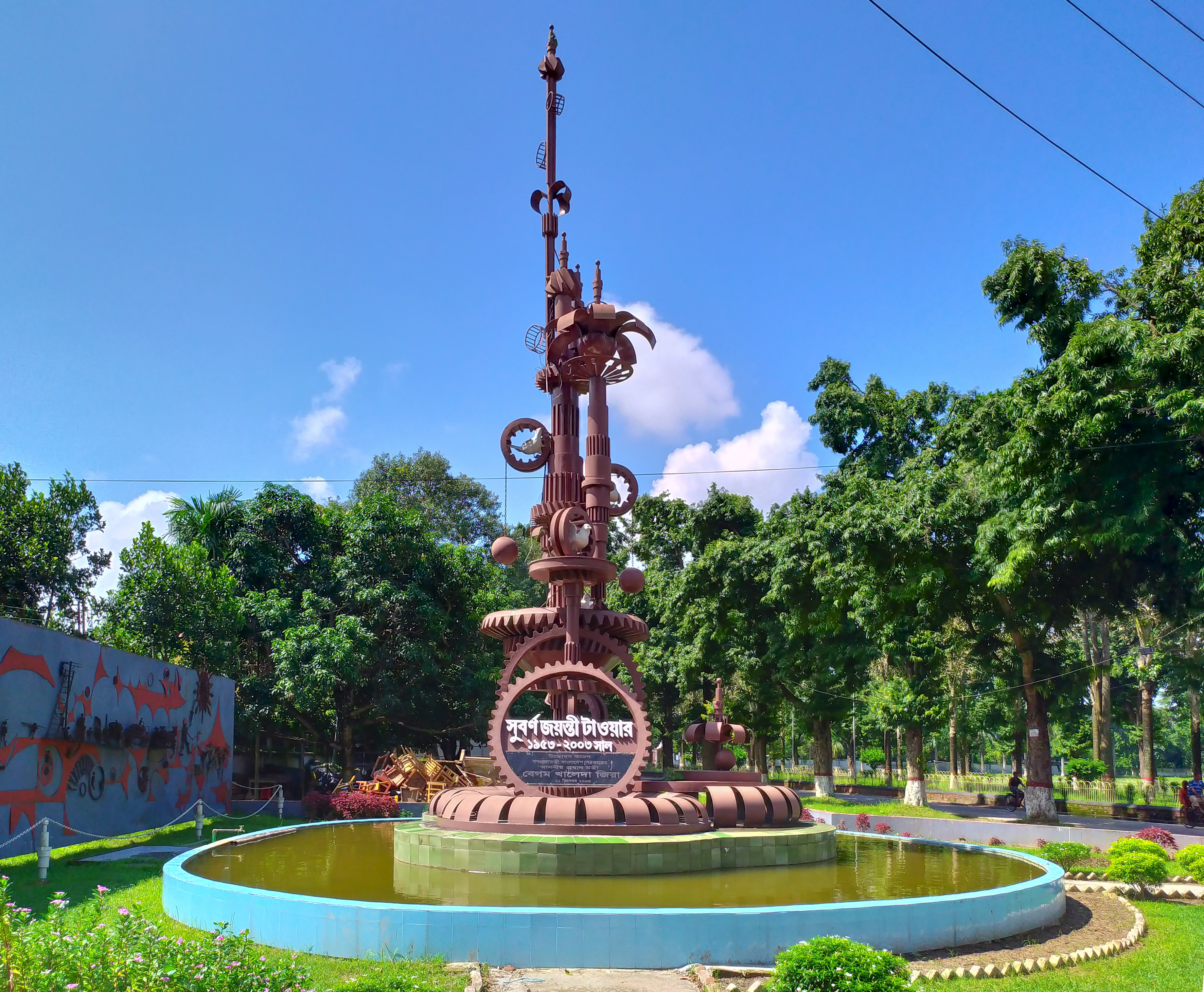 Suborno Jayonti Tower, University of Rajshahi